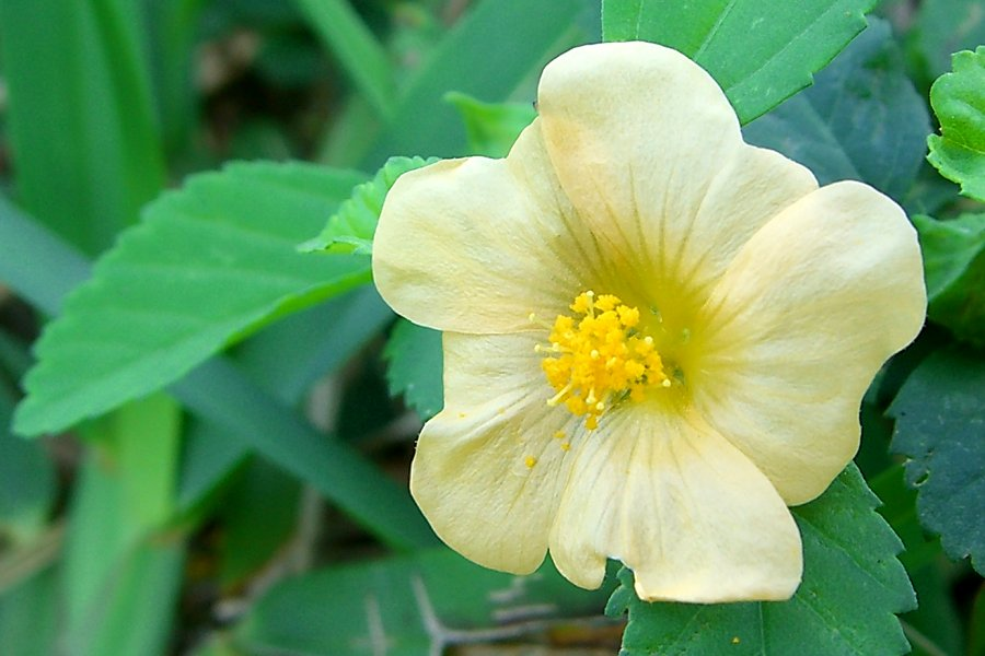 Scientific Name: Sida acuta Burm. f. – Common Name: Common Wireweed – Certainty: positive (notes) – Location: Florida Keys; Upper Keys; Buttonwood Bay – Date: 20061225